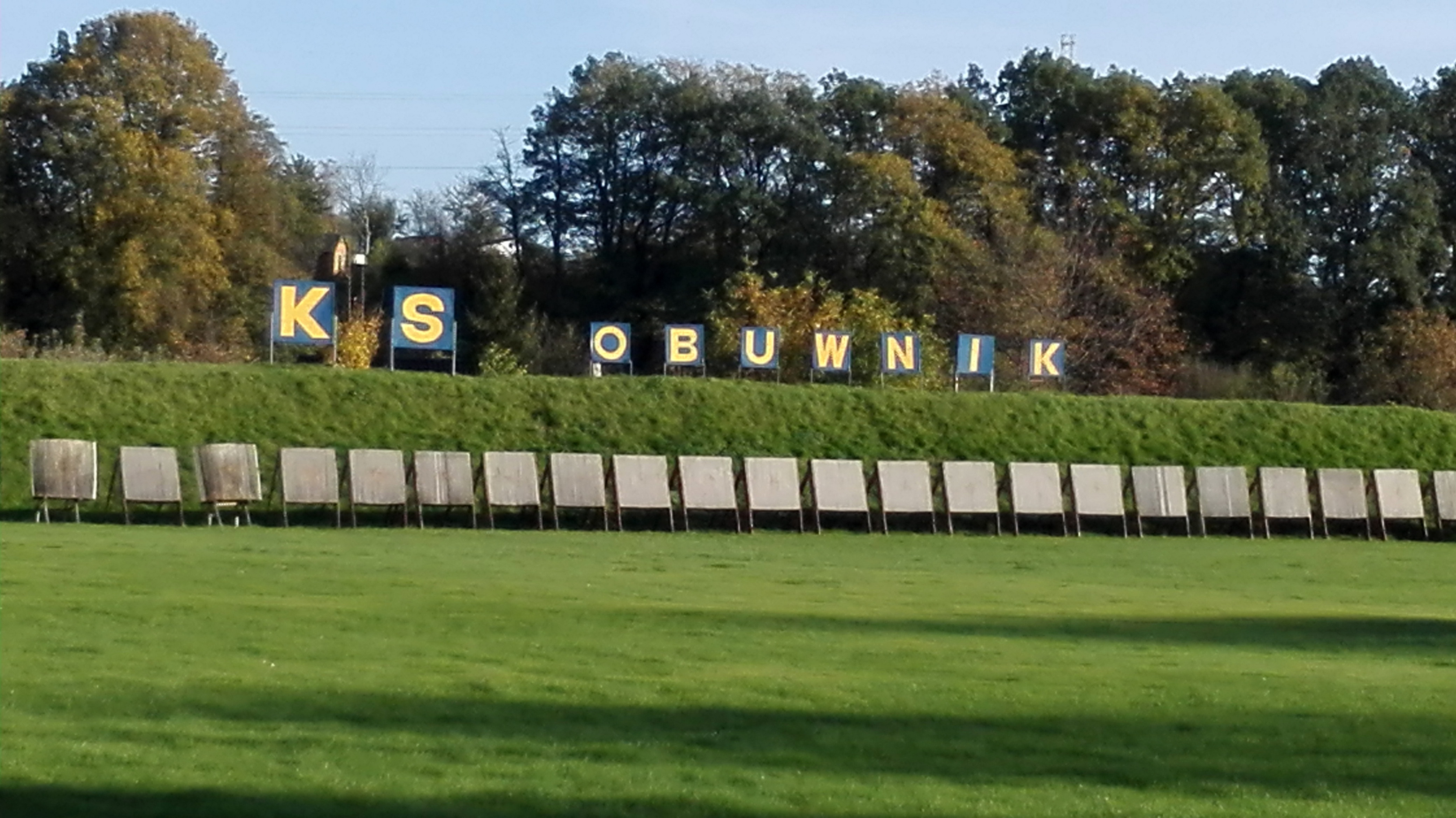 Archer Course - Łucznicza Street in Prudnik